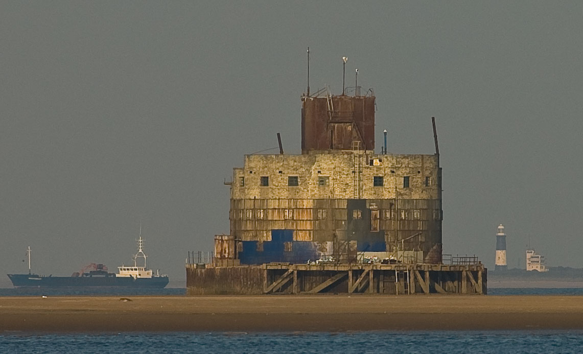 Haile Sand Fort, just off Cleethorpes, Lincolnshire, England. Passing ship and Spurn Point in the background.